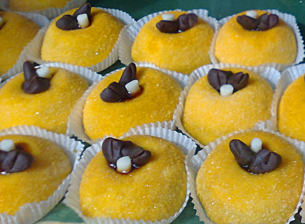 Polenta e Osei, a specialty of Bergamo, is a pastrychef's slight of hand, a mound-shaped cake that looks like freshly turned out polenta, being pecked at by a flock of sweet marzipan osei, or birds.